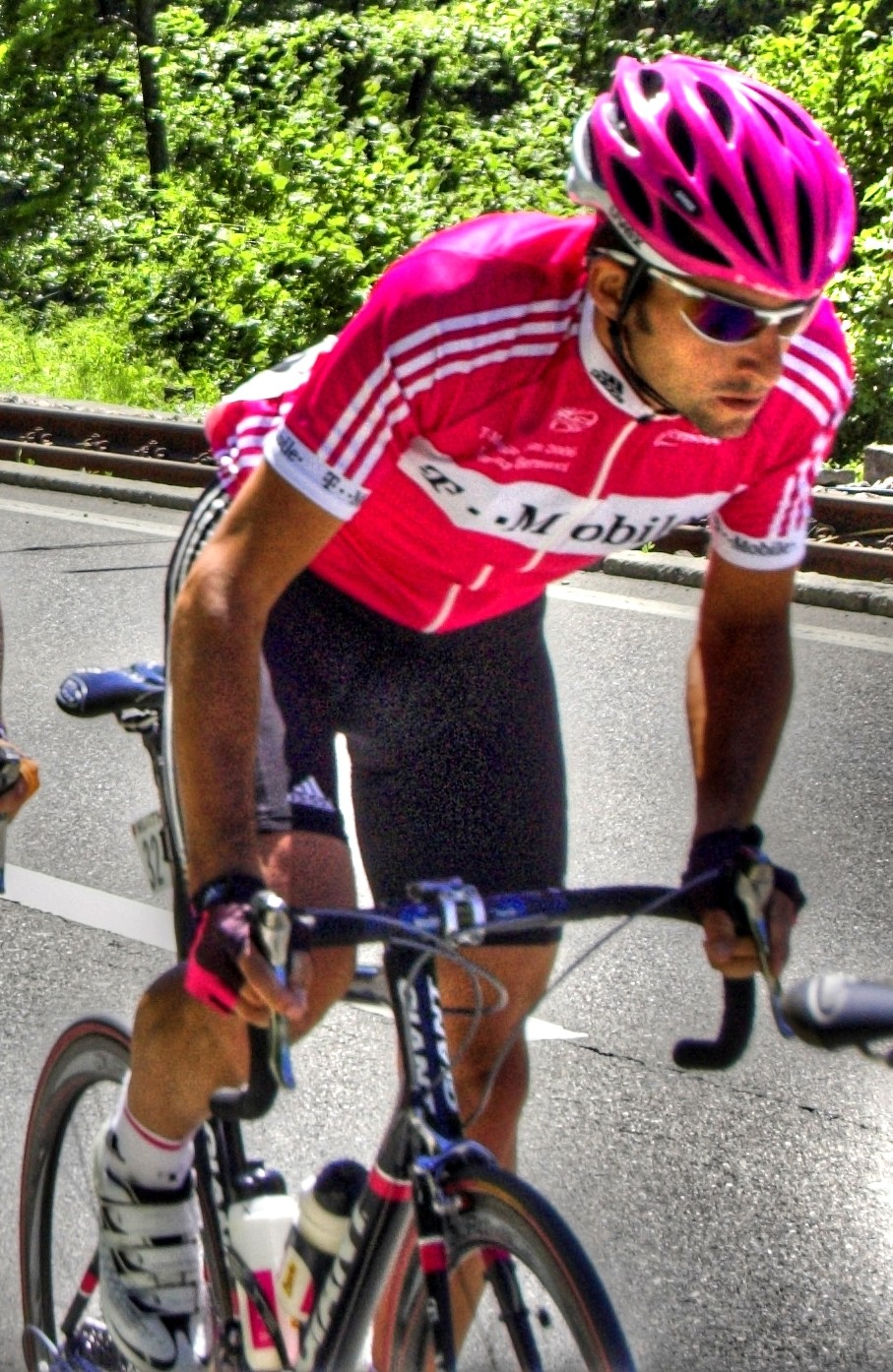 Lorenzo Bernucci on the 2nd stage of the bicycle race "tour de suisse 2006" - near Mutschellen. 'tour de suisse 4' On White